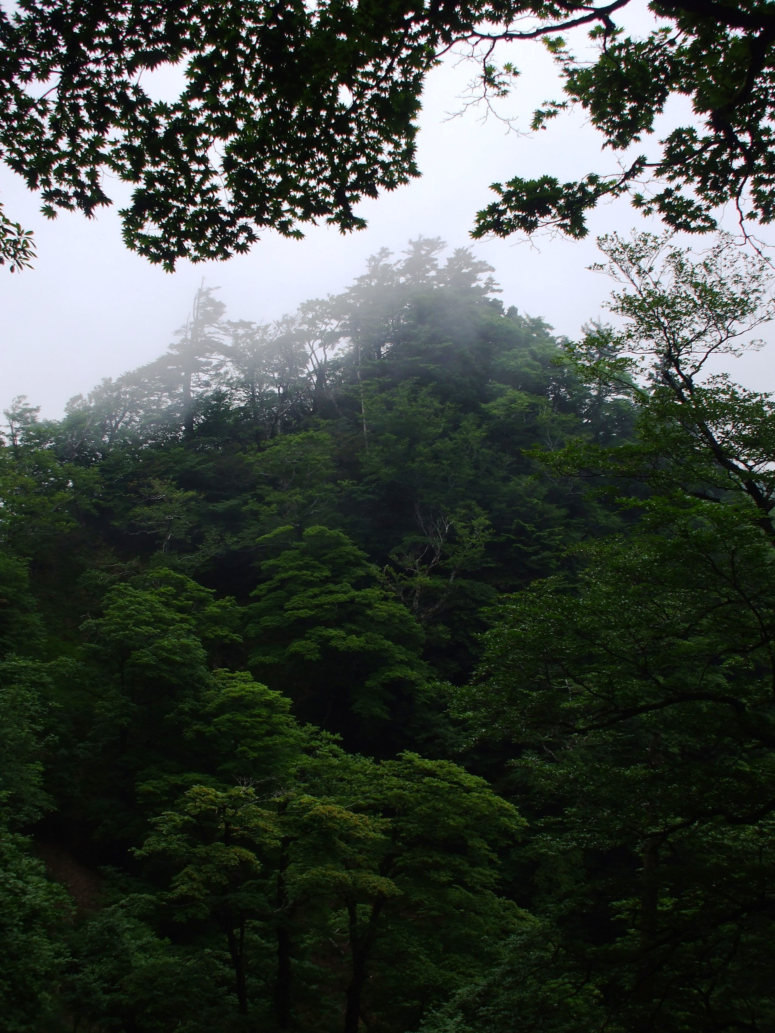 Mount Inamura, Omine Mountains, Nara, Honshu, Japan.